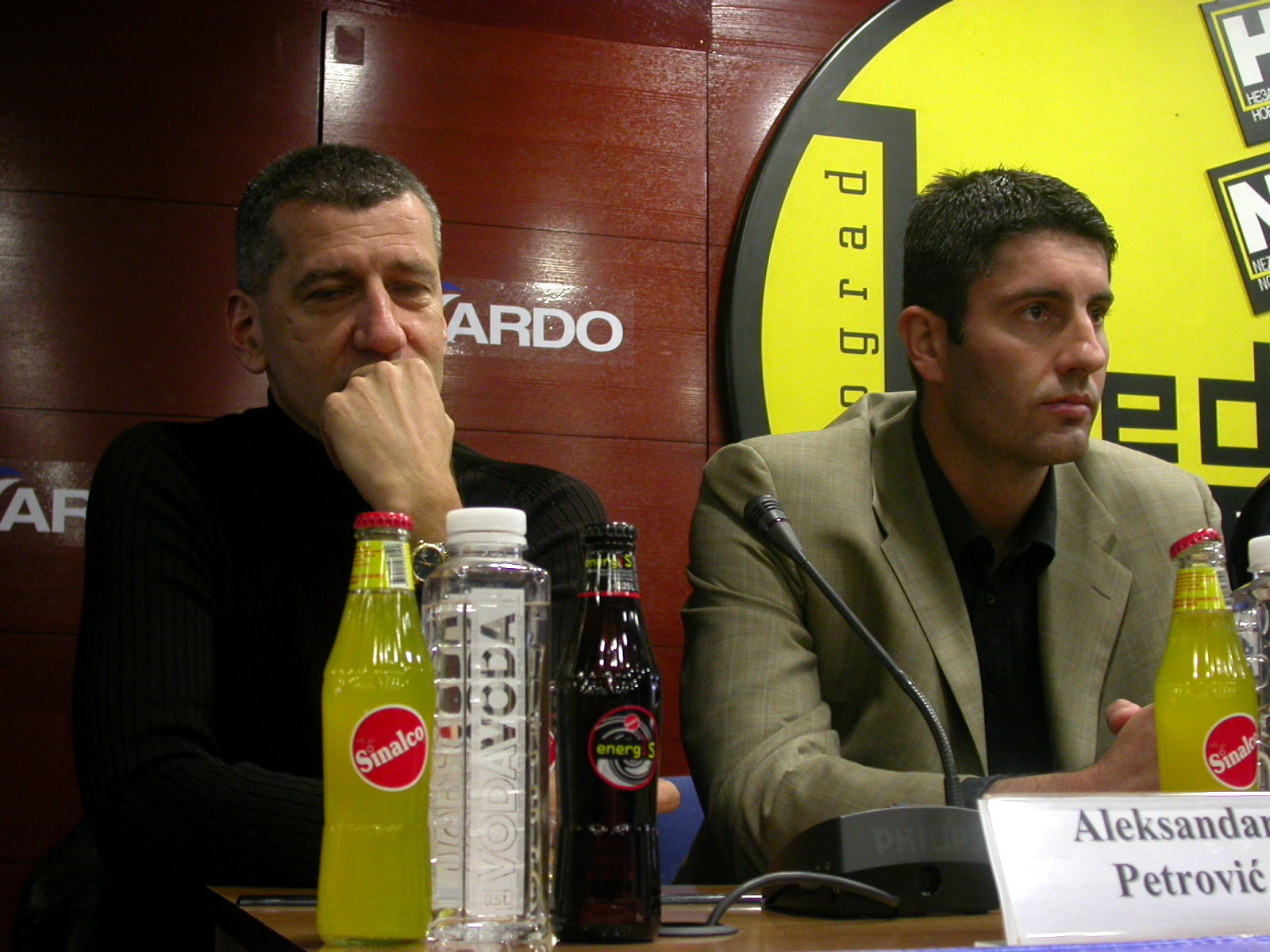 Aleksandar_Petrović_i_Mlađan_Šilobad